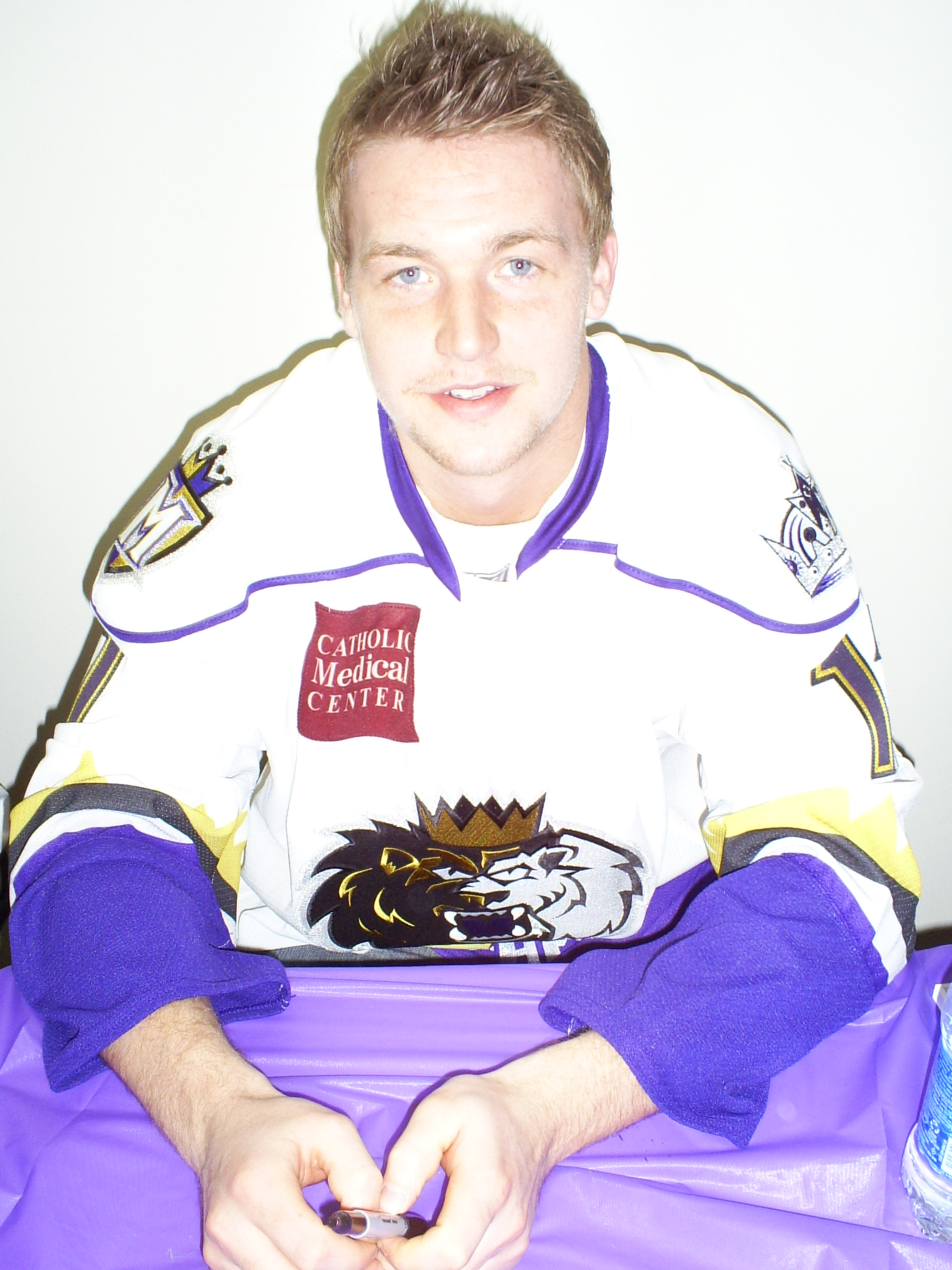 Photo by Craig Michaud. This was in 2009 while Trevor was playing for the Manchester Monarchs.